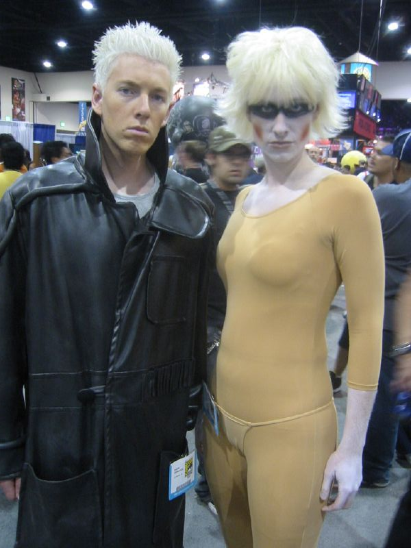 Anyone know how to lengthen a replicant's lifespan? Anyone? Photo by Bonnie Burton. Read more about Comic-Con 2007 on